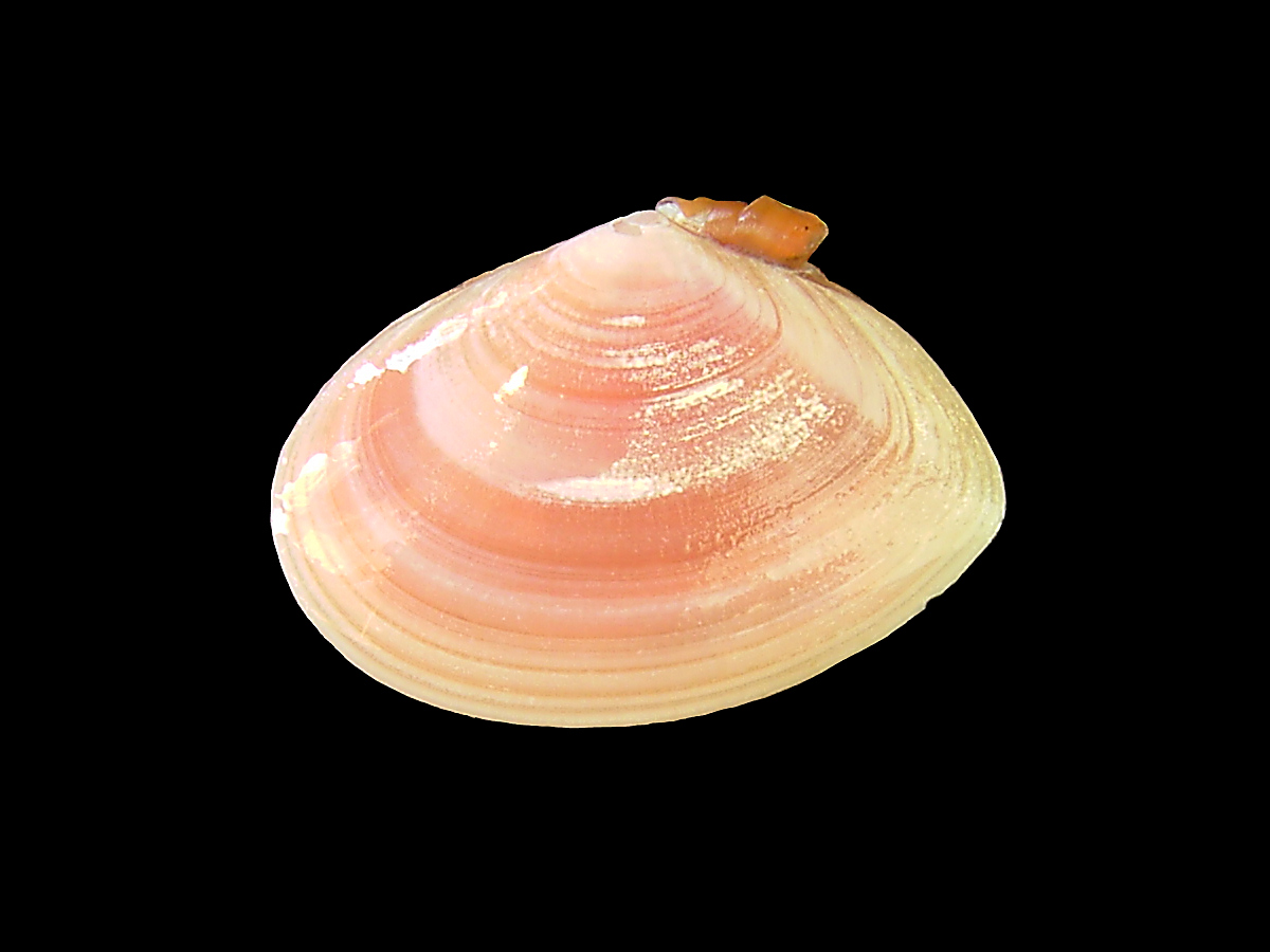 Thin tellin from the southern North Sea - Belgium.Studio image